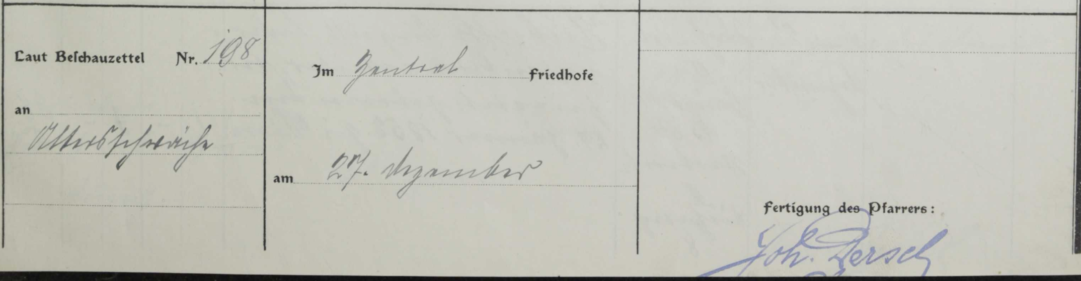 Death Index Record for Theodor Helm (2 of 2)